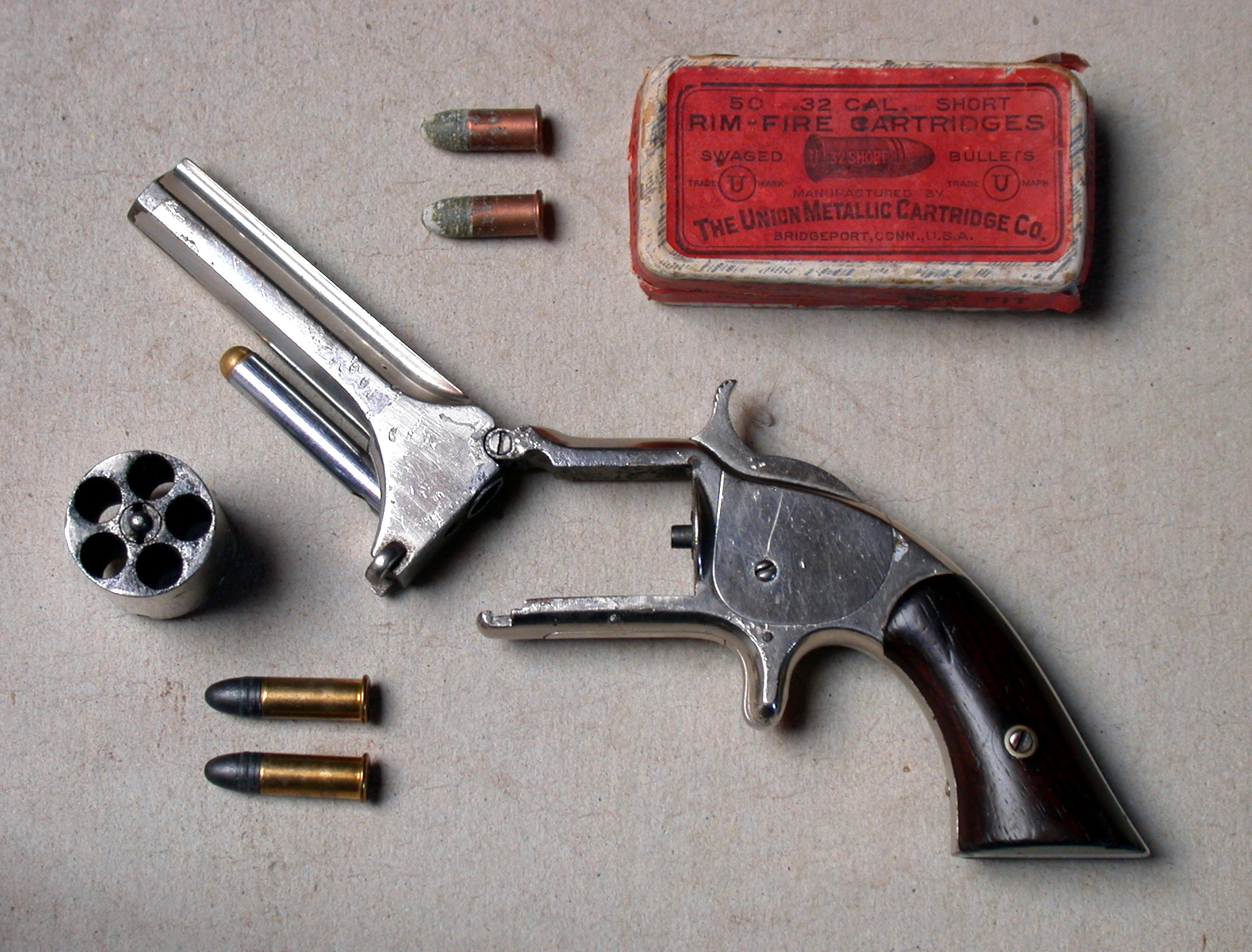 S&W Model 1 1/2 .32 cal in loading position